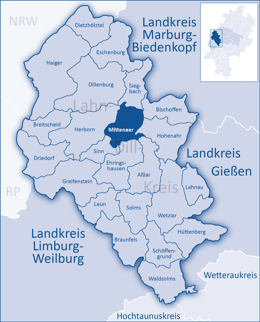 The map shows a district in the area of Lahn-Dill-Kreis